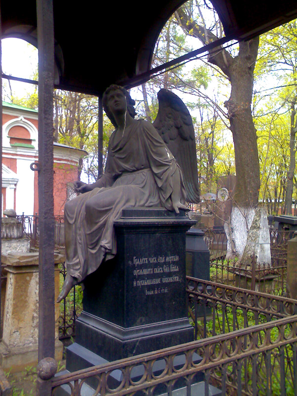 Donskoy monastery in Moscow